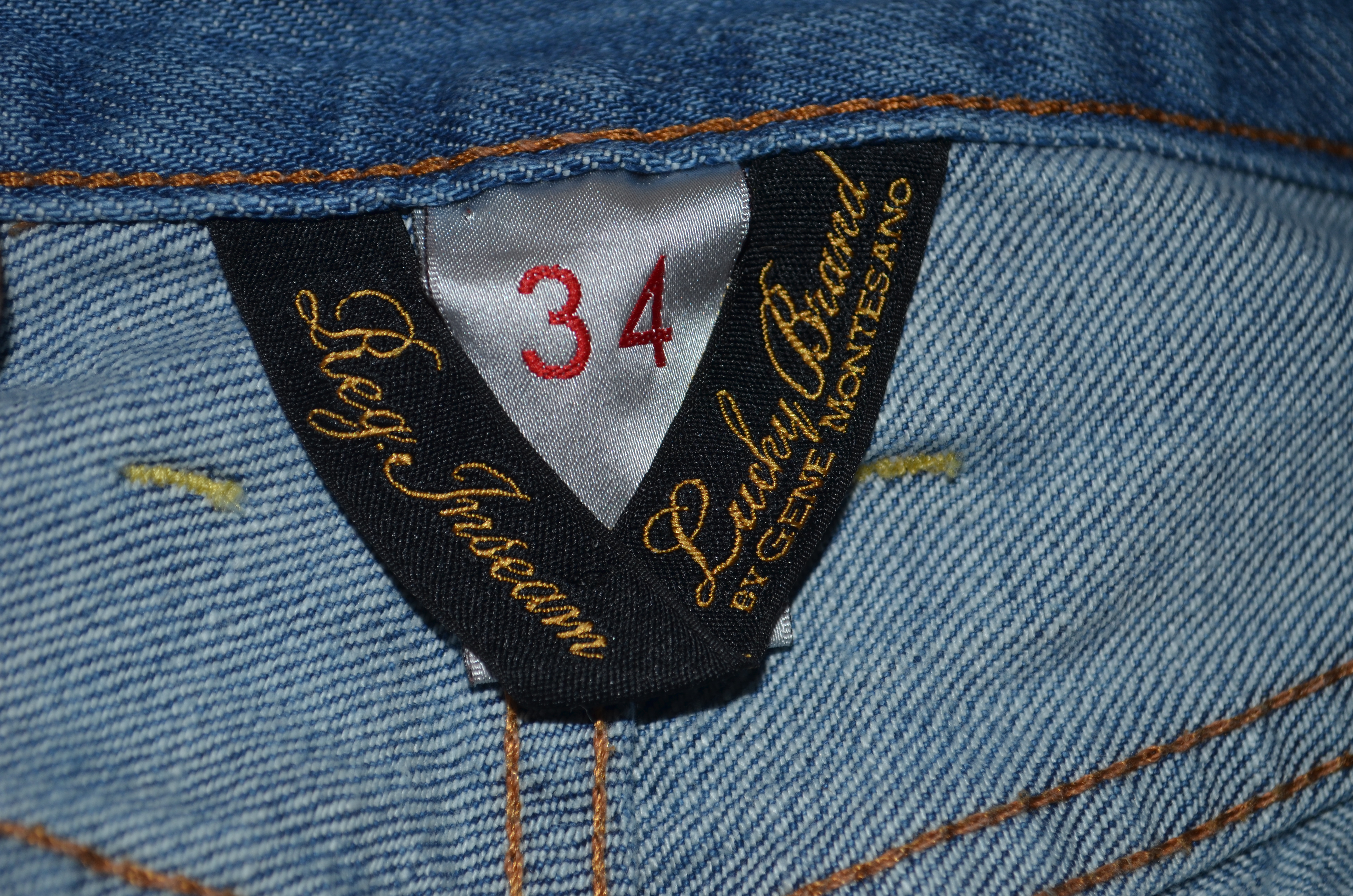 Lucky Brand Jeans Inside Label